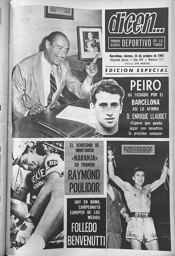 A newspapwer cover